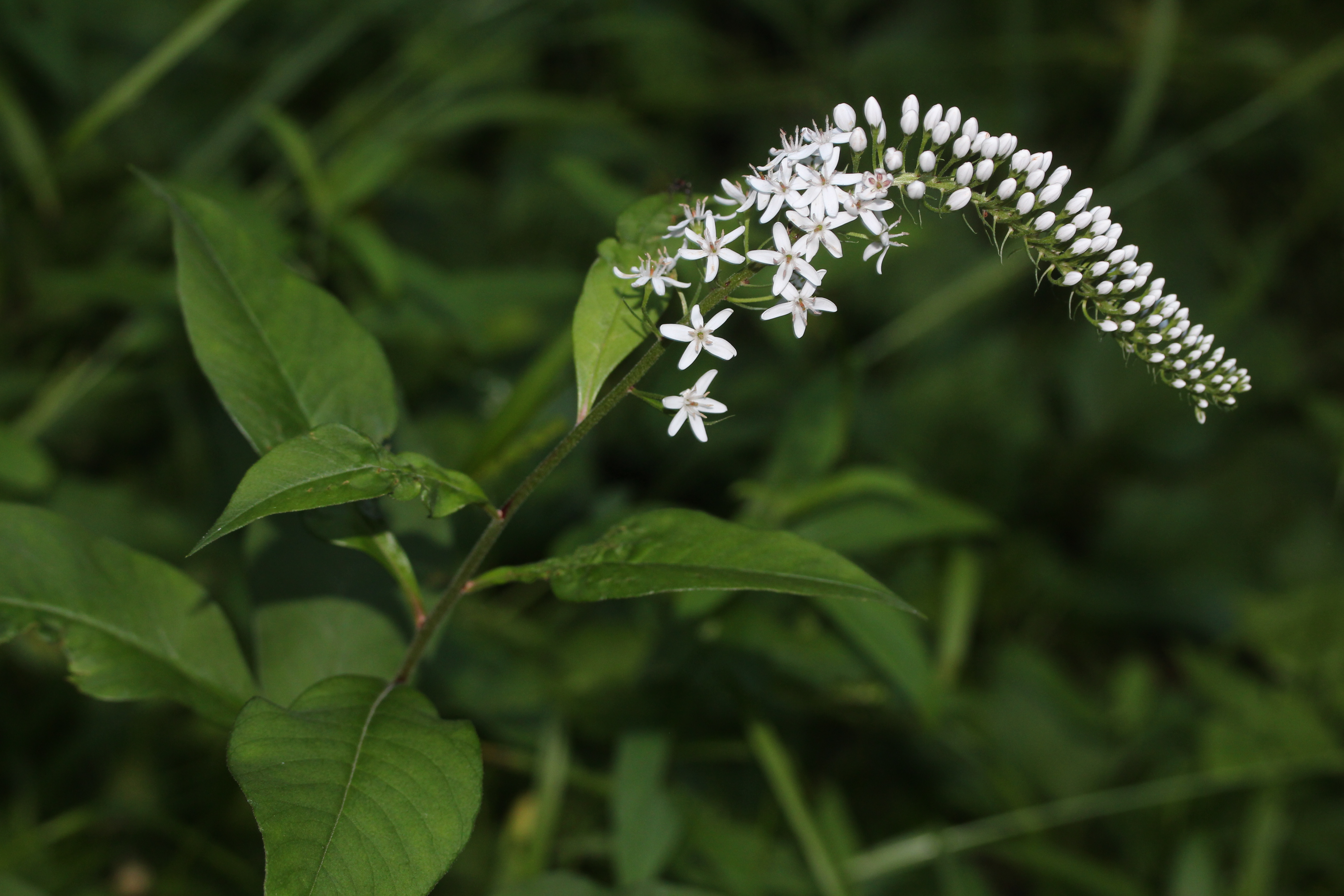 Lysimachia clethroides in Hida Mountains, Takayama, Gifu prefecture, Japan.